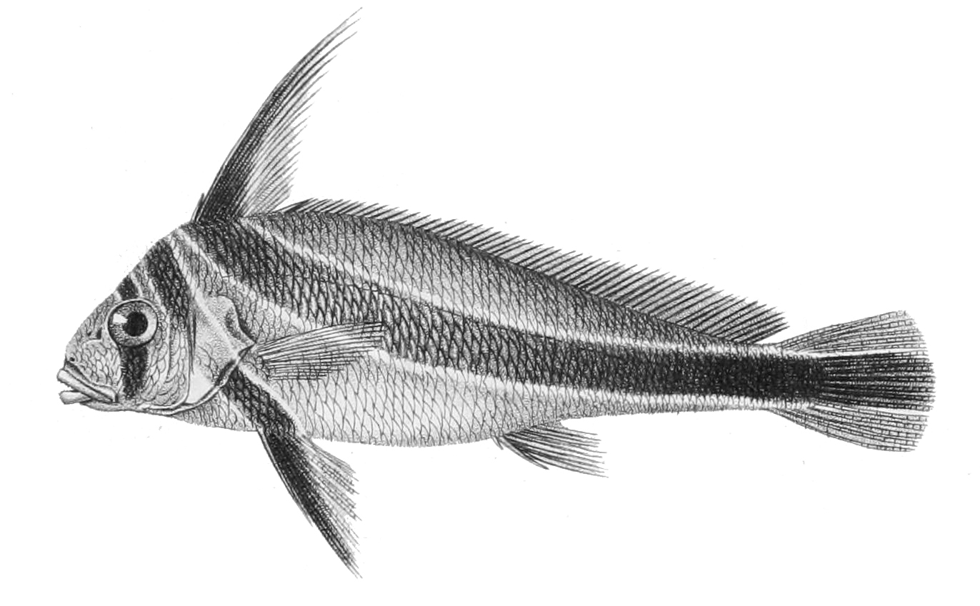 Equetus lanceolatus by Georges cuvier.